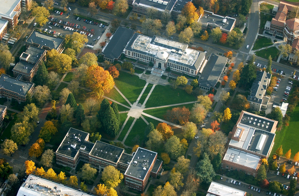 By air in 2005 of the Memorial Union at Oregon State. Was out doing a story on the OSU flying club and grabbed some photos of campus by air. I think this is the photo that has run the most times in The Daily Barometer in the last 10 years now, mostly for info graphics.